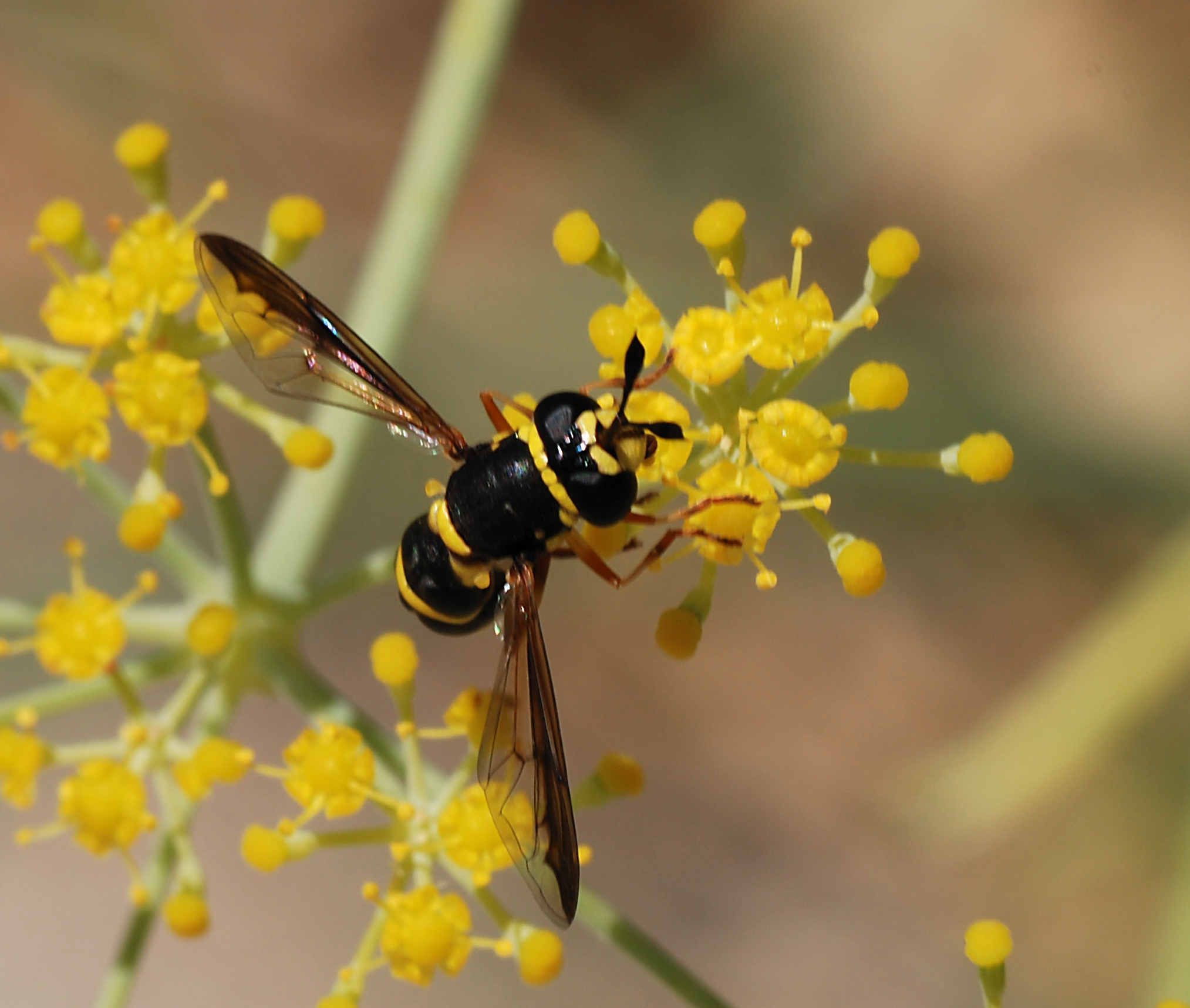 Wasp-looking hoverfly (Ceriana conopsoides)